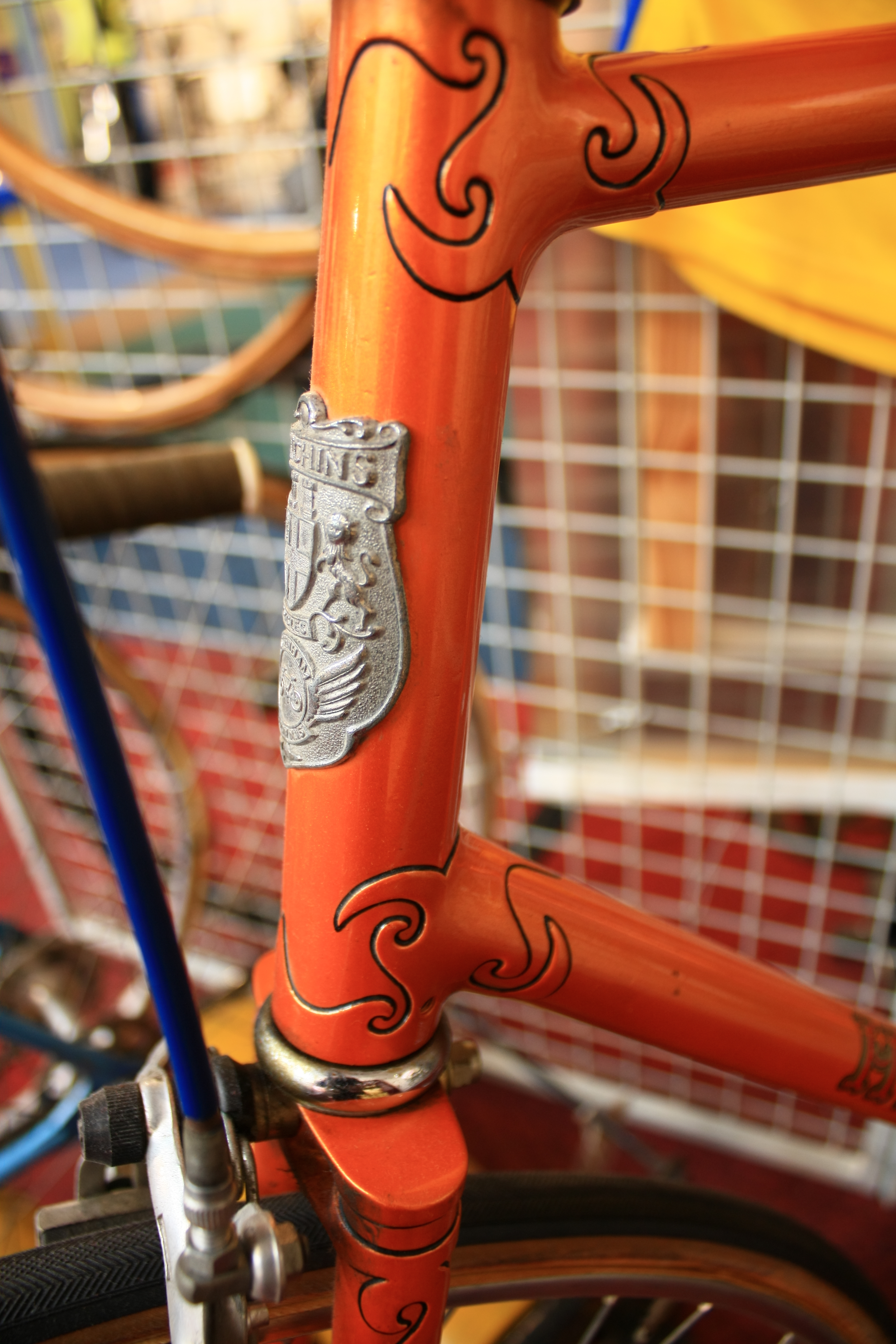 Coventry Transport Museum, UK. 2009